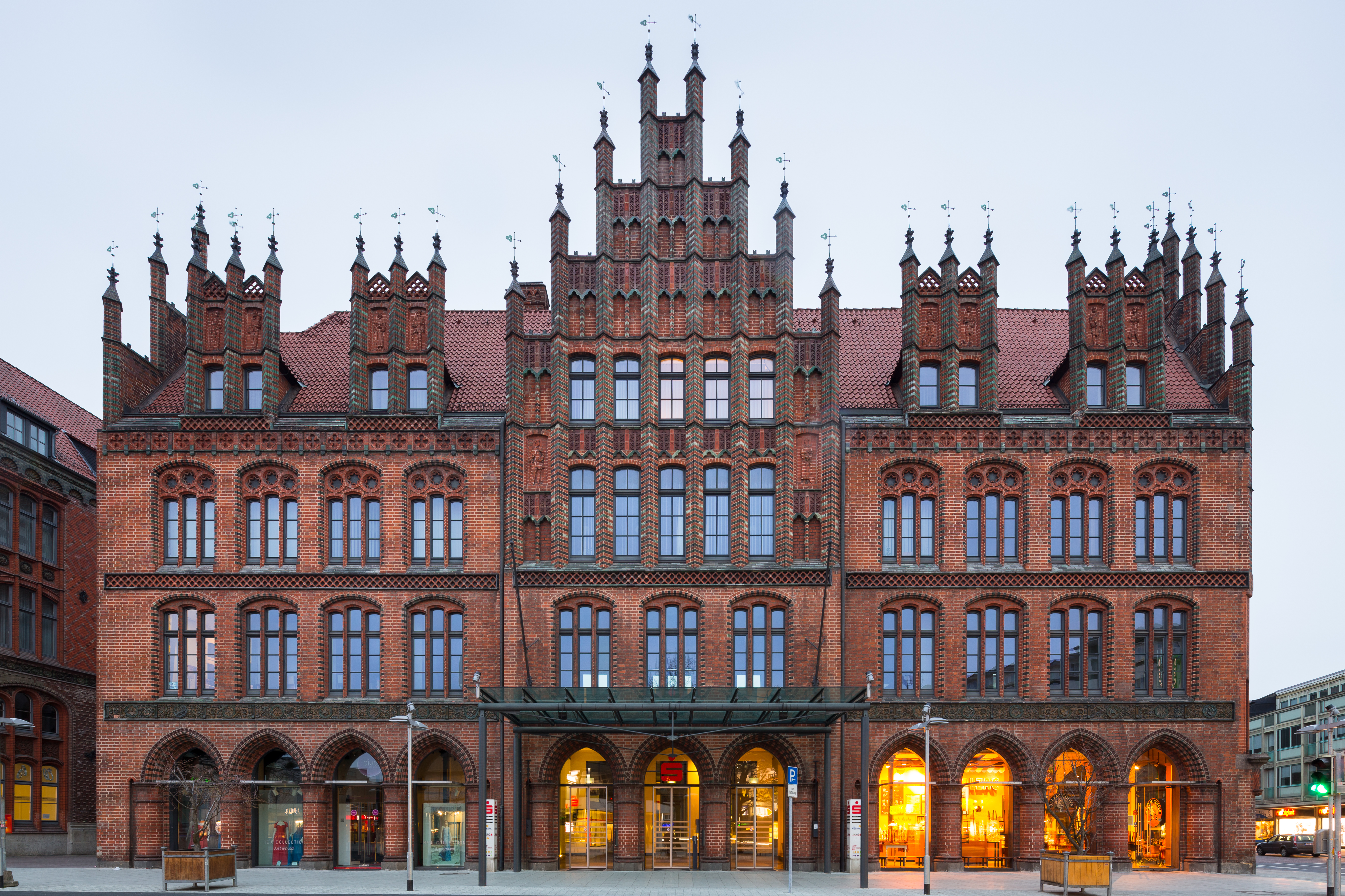 Hannover's old town hall located at Karmarschstrasse (pictured) and Schmiedestrasse in Mitte quarter of Hannover, Germany.